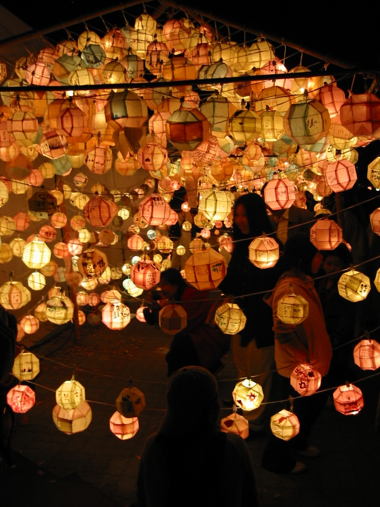 A photo of the Lotos Lantern Festival 2001 in Seoul, South Korea